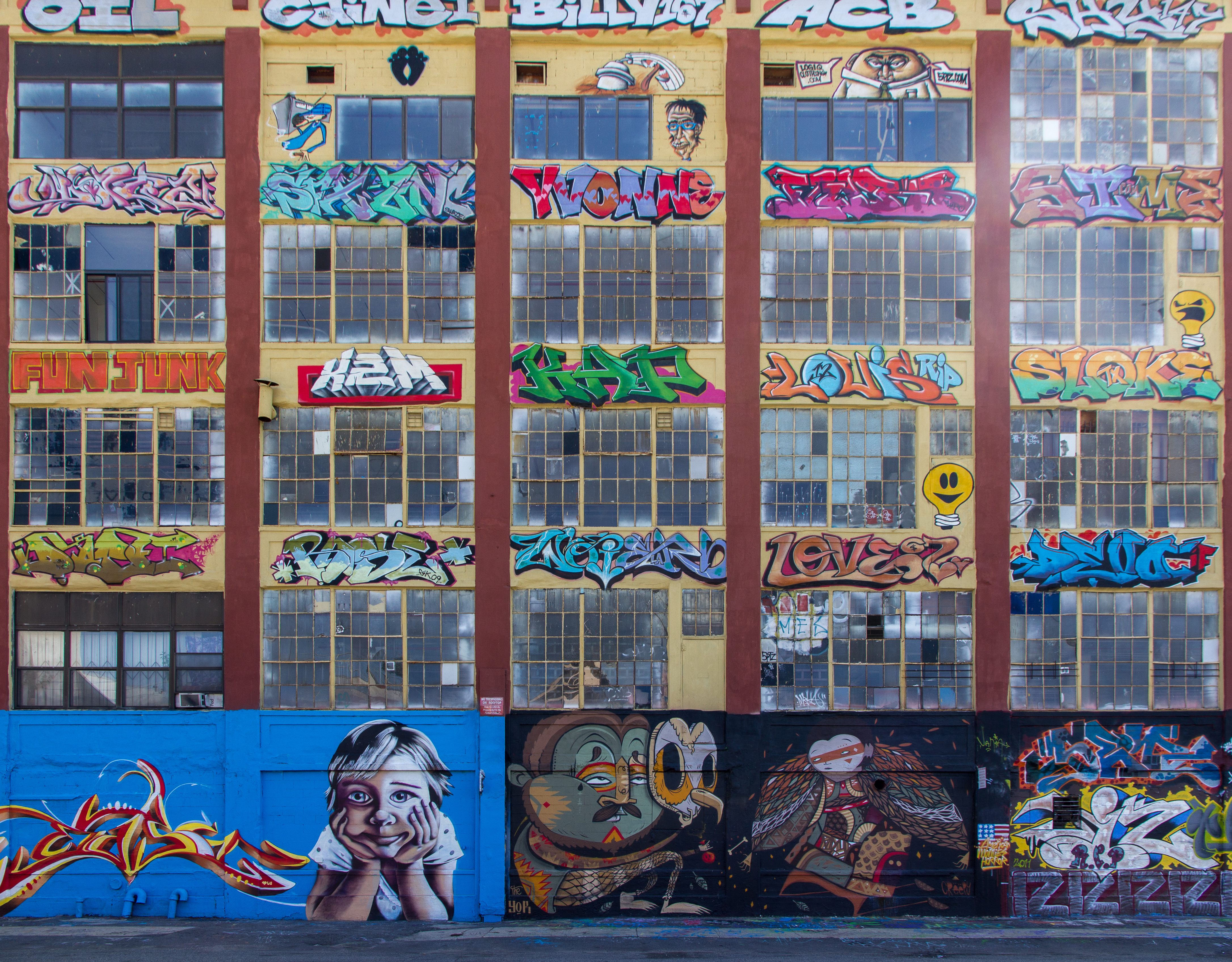 A graffiticovered wall at 5 Pointz